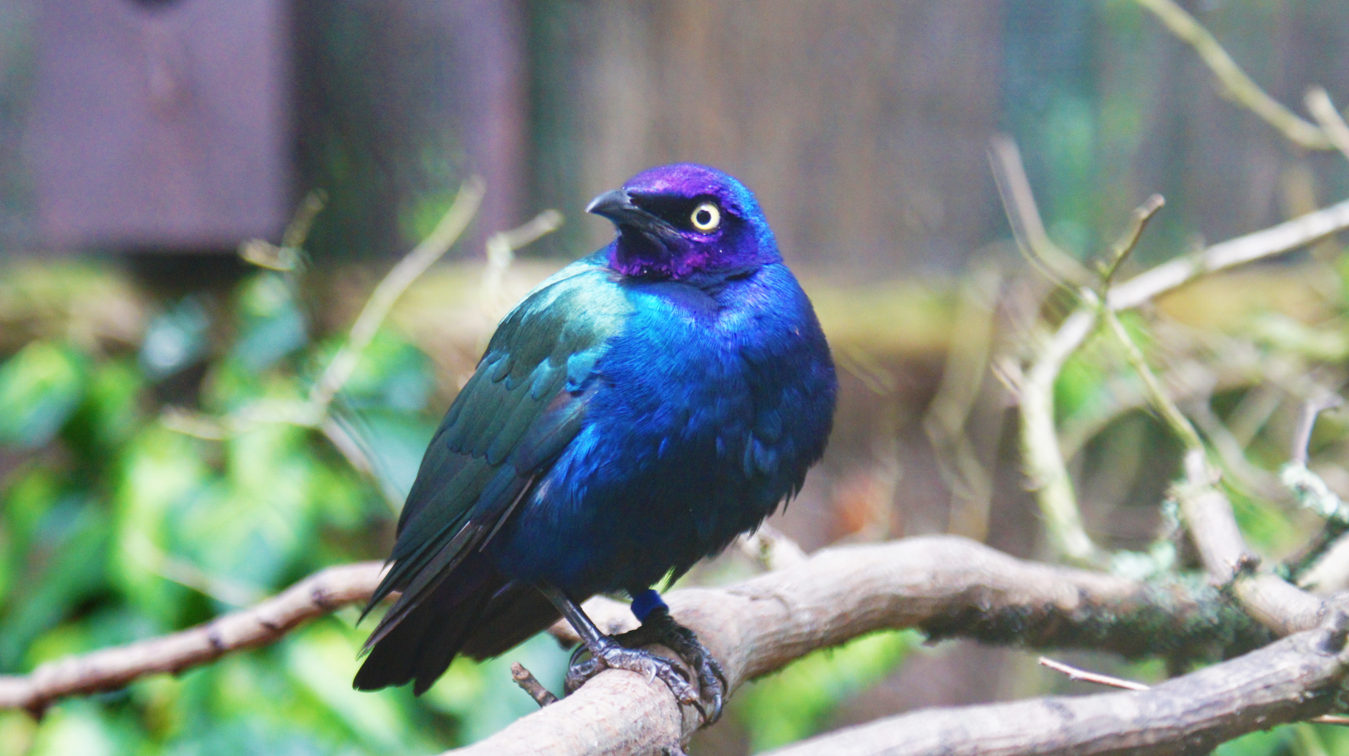 Purple starling (Lamprotornis purpuereus) in captivity at Birdworld Zoo